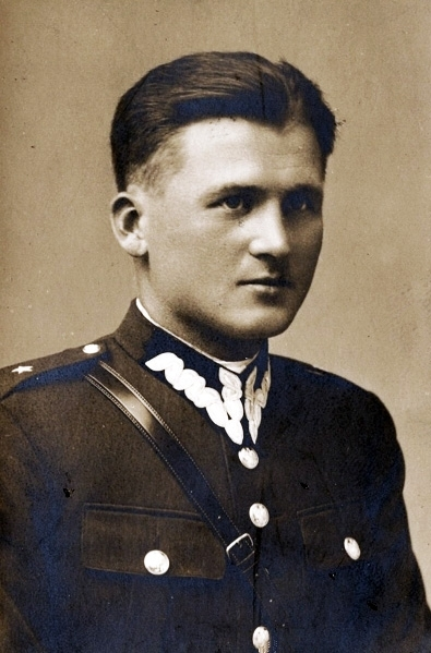 Kazimierz Bilski (1913-1979) – Major of Polish Army. cichociemny